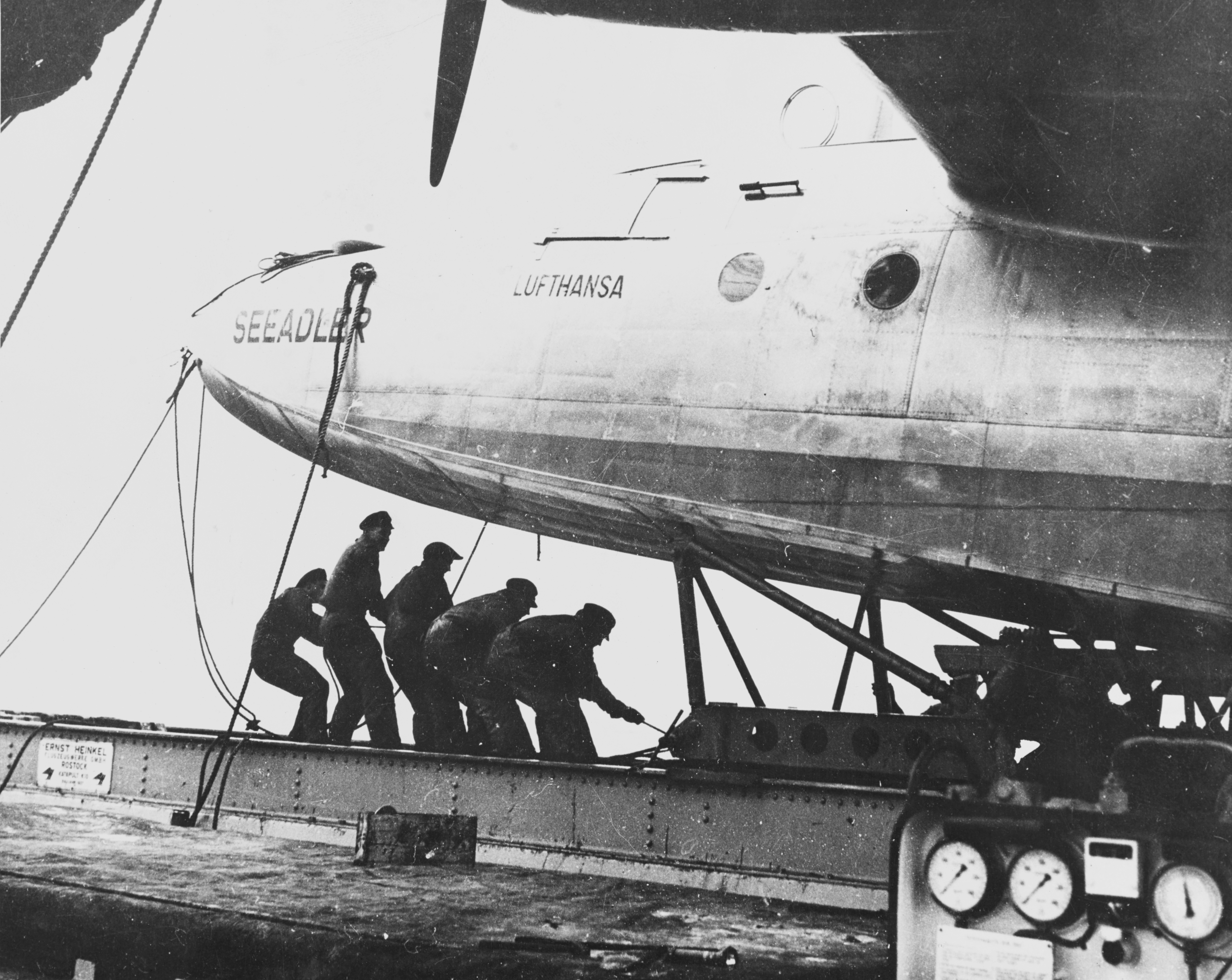 The German Luft Hansa Dornier Do 26 V1 "Seeadler" (D-AGNT) on a catapult ship in the South Atlantic, in 1938-1939. It was later destroyed by RAF Hawker Hurricanes of No. 46 Squadron in Rombaksfjord, Norway, on 28 May 1940. Note the "Ernst Heinkel Flugzeugwerke GmbH Rostock" company sign on the catapult.